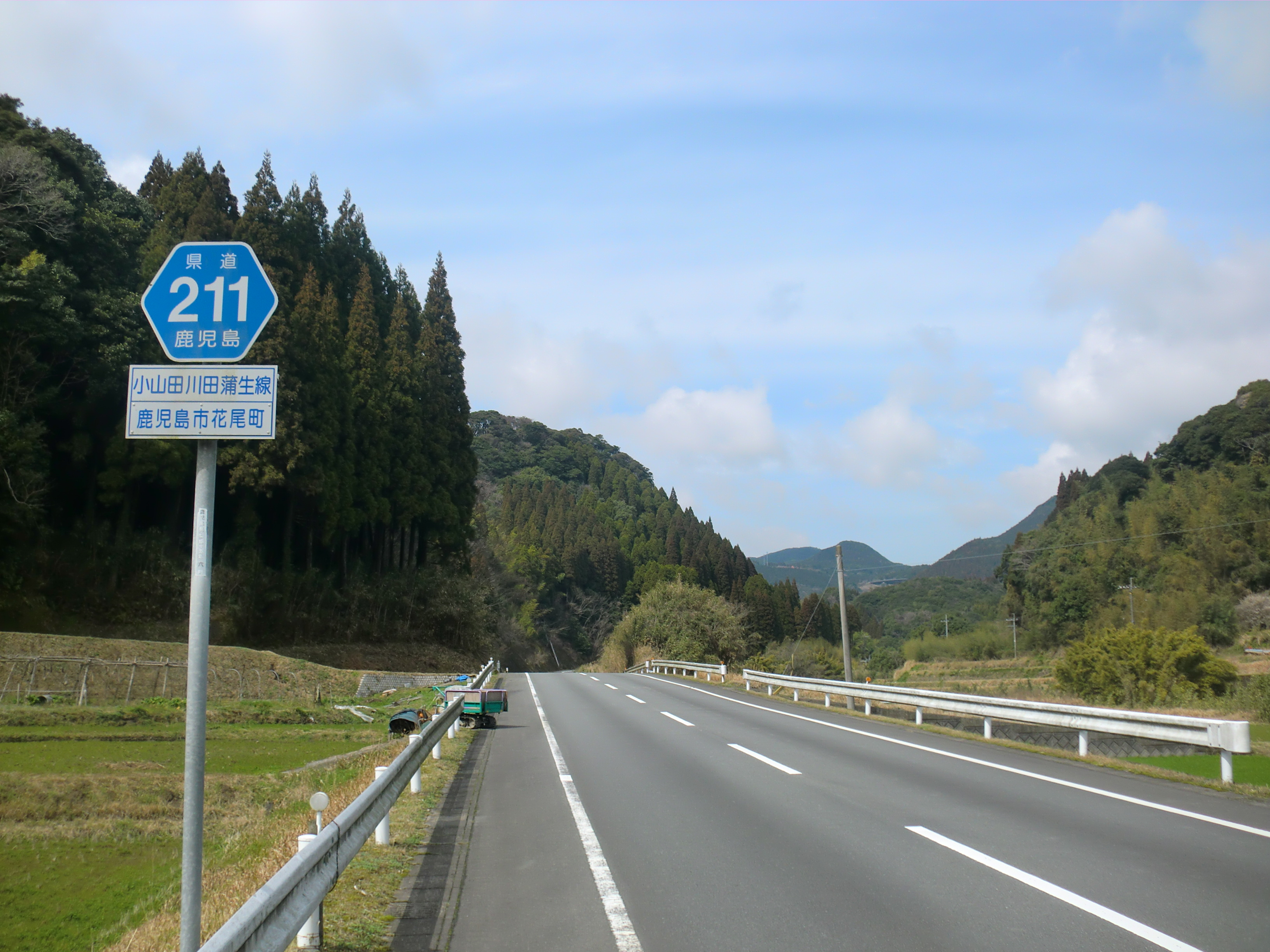 The Kagoshima Prefectural Road Route 211 in Kagoshima City